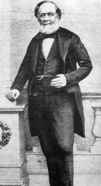 Photograph of William Calcraft (died 1879)